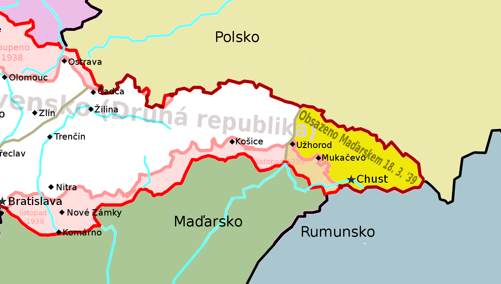 Czechoslovak republic in the end of 1938 after territorial losses caused by Munich agreement and other agreements with neighboring countries. Boundaries Dark red - no changes during 1938 Red - boundaries changed by territorial losses, former Czechoslovak borders Dark pink - New borders of Czecho-Slovakia Black - Boundaries of other countries Territory White - Territory of Czechoslovakia after Munich and other agreements Light pink - Territorial losses of Czechoslovakia during October and November 1938 Light purple - Germany Pale green - Hungary Dark orange - Poland Pale blue - Romania Towns and cities Star - Regional capitals Diamond - other selected cities